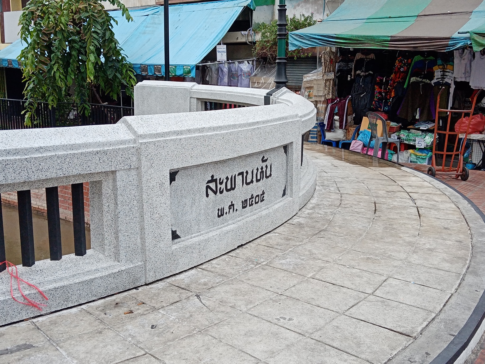 Saphan Han (turntable bridge), the bridge over Khlong Ong Ang and tip phase of Sampheng the shopping district